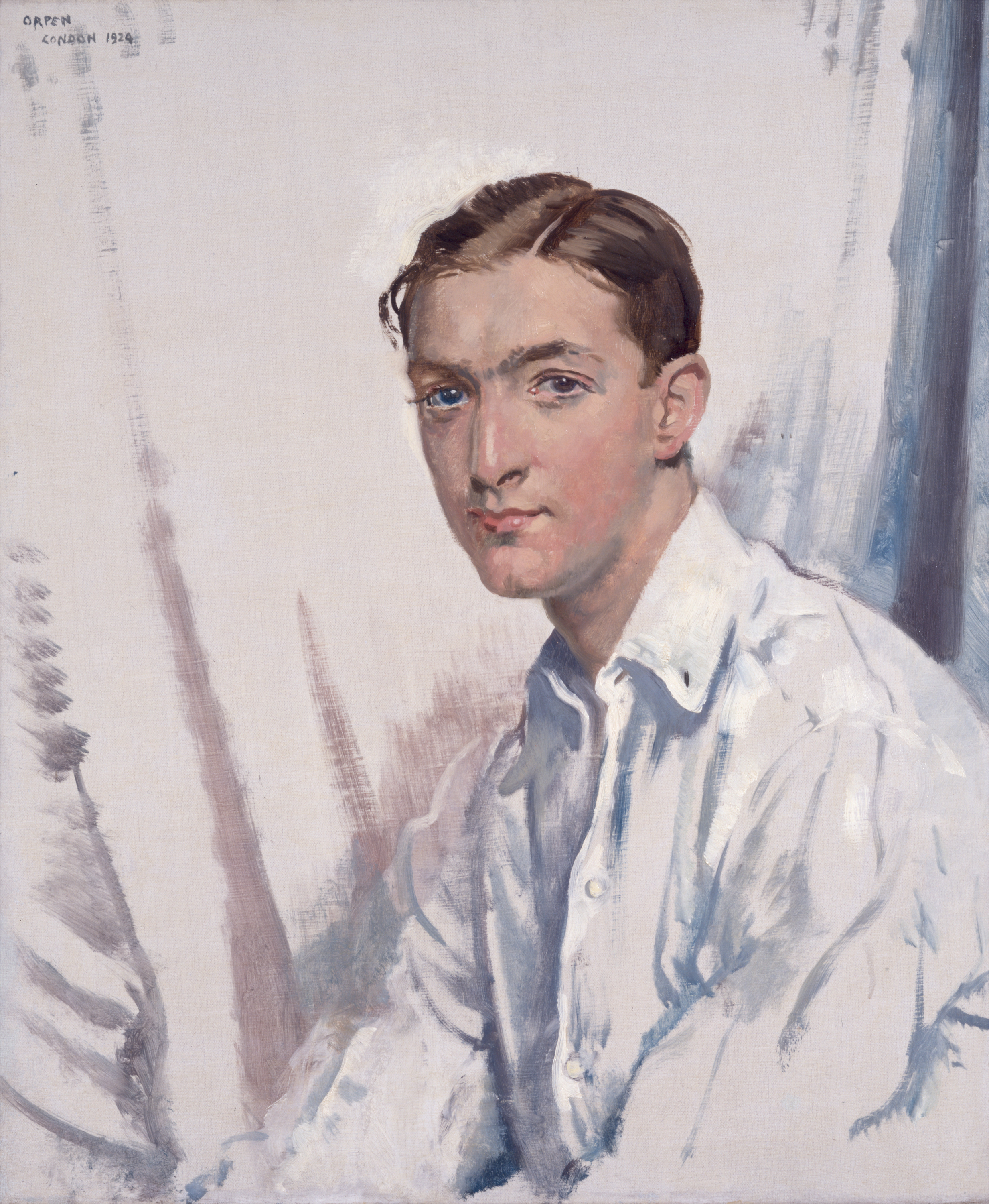 Paul Mellon oil on canvas 72.4 x 59.7 cm signed u.l.: ORPEN / LONDON 1924